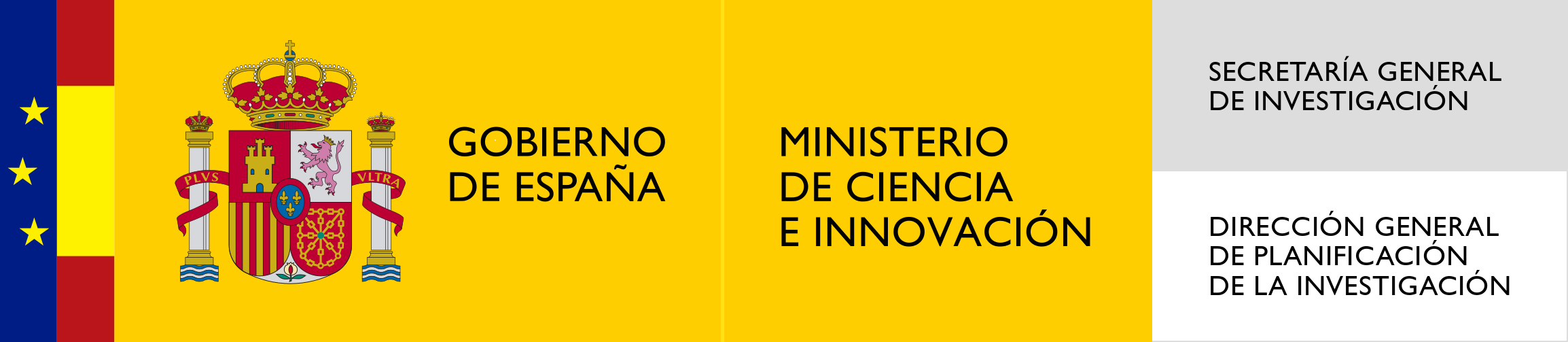 Logo of the Directorate-General for Research Planning of Spain.